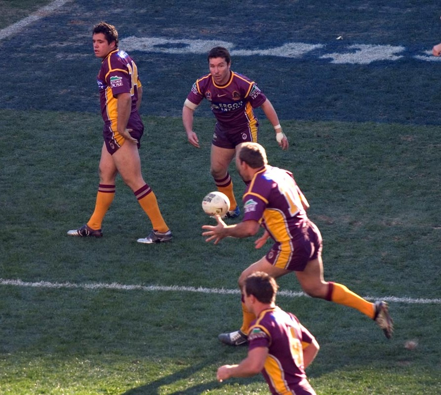 Brisbane Broncos players